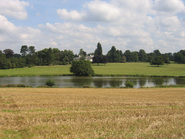 The lake, Berkswell Hall. Seen from the footpath across the south of the square, with Berkswell Hall itself actually in the next square.